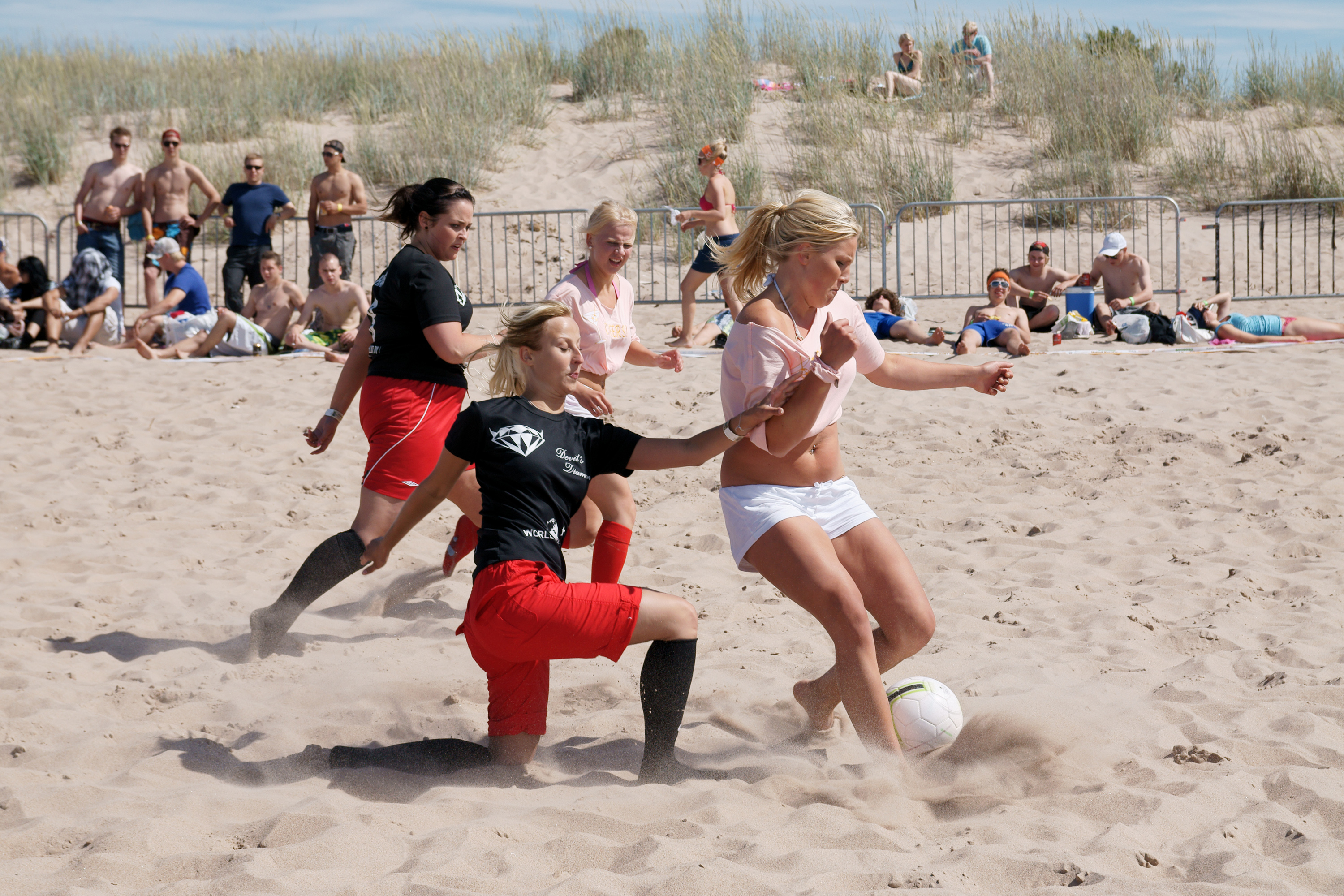 Women's beach football in Yyteri Beachfutis.